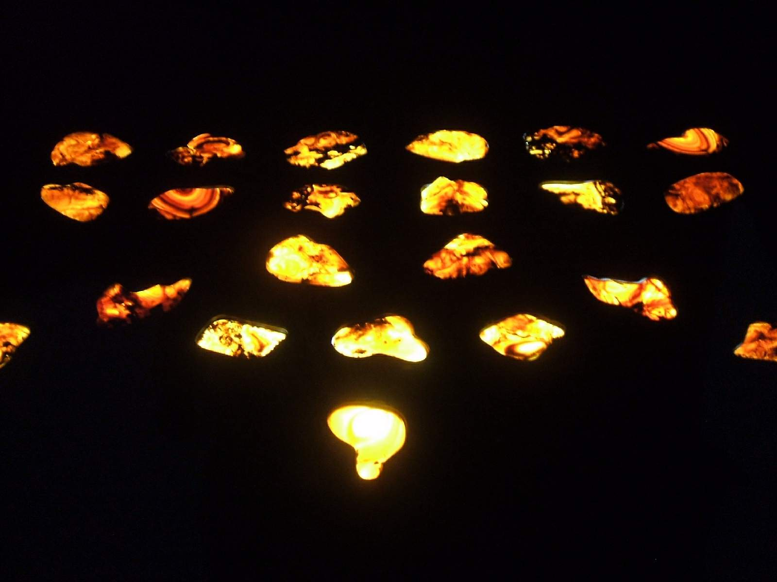 Museo de Ciencias Naturales de Álava (Torre de Doña Ochanda), en Vitoria-Gasteiz. Muestras de ámbar con inclusiones biológicas